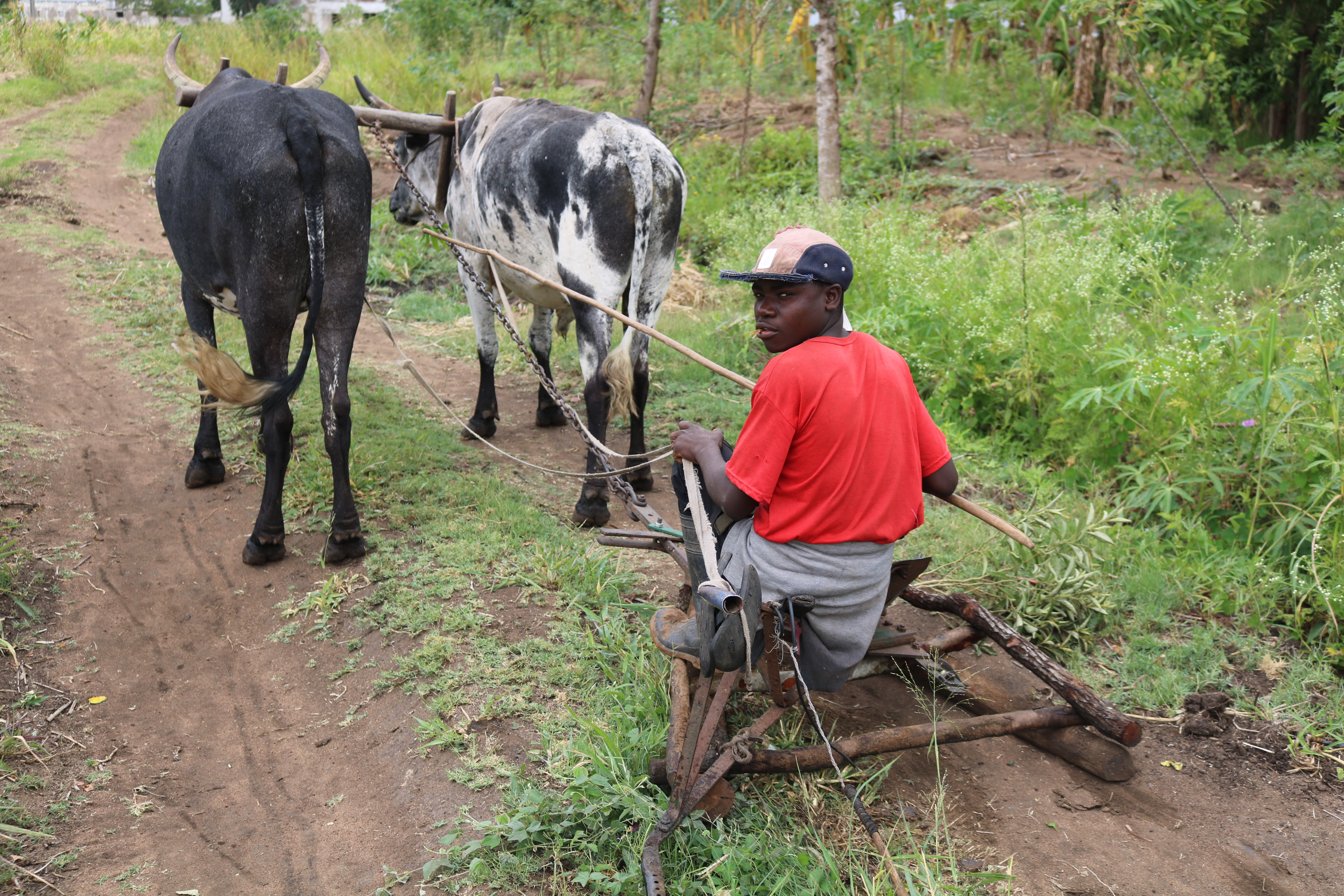 This is an image with the theme "Play" from: Mozambique